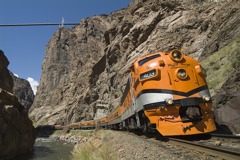 Royal Gorge Route Railroad